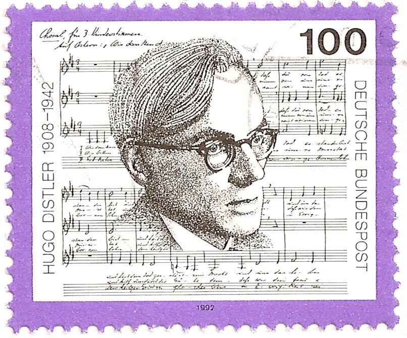 Stamp of Germany figuring composer Hugo Distler, issued 1992.